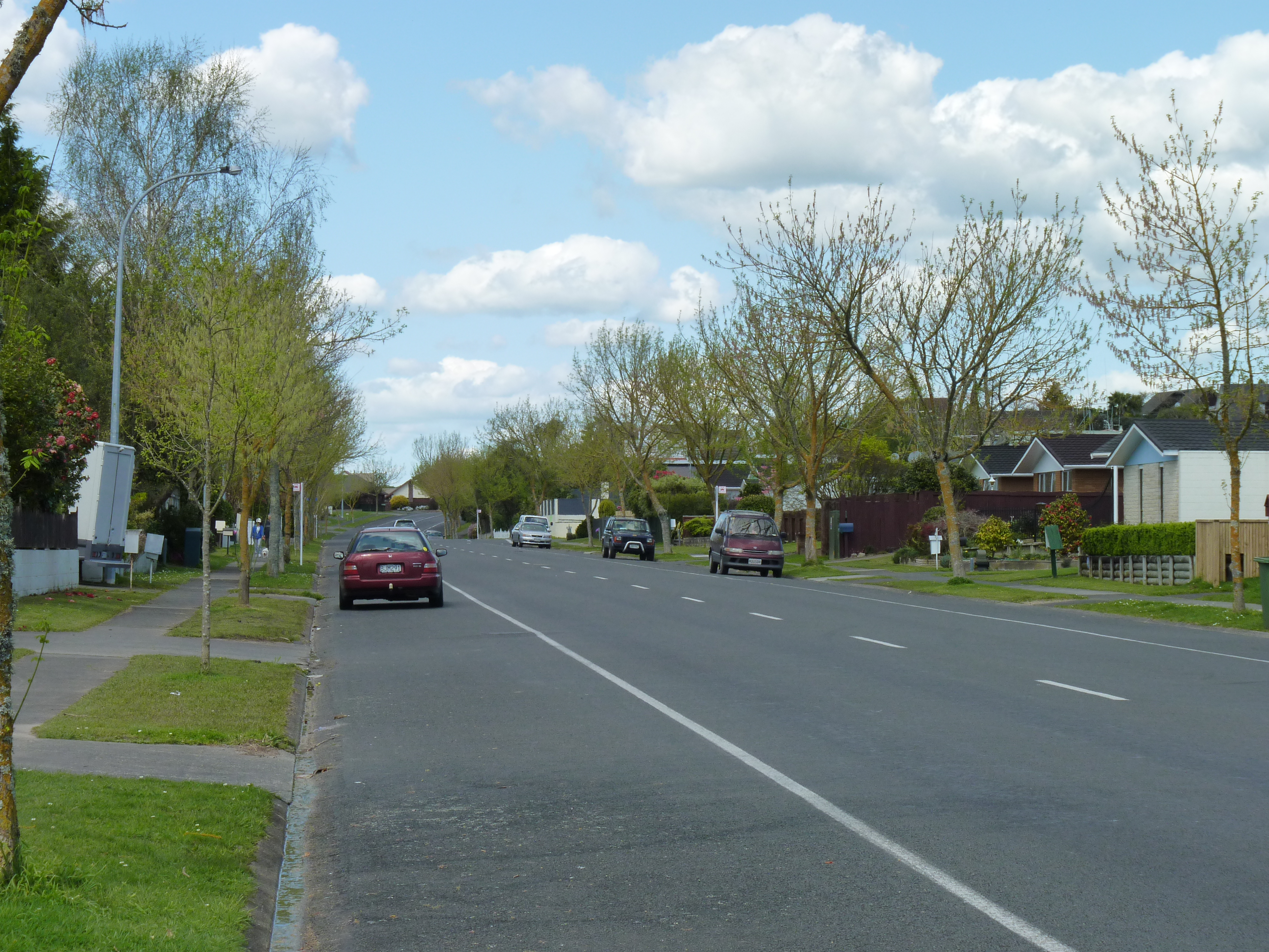 Pukete in north Hamilton, New Zealand.